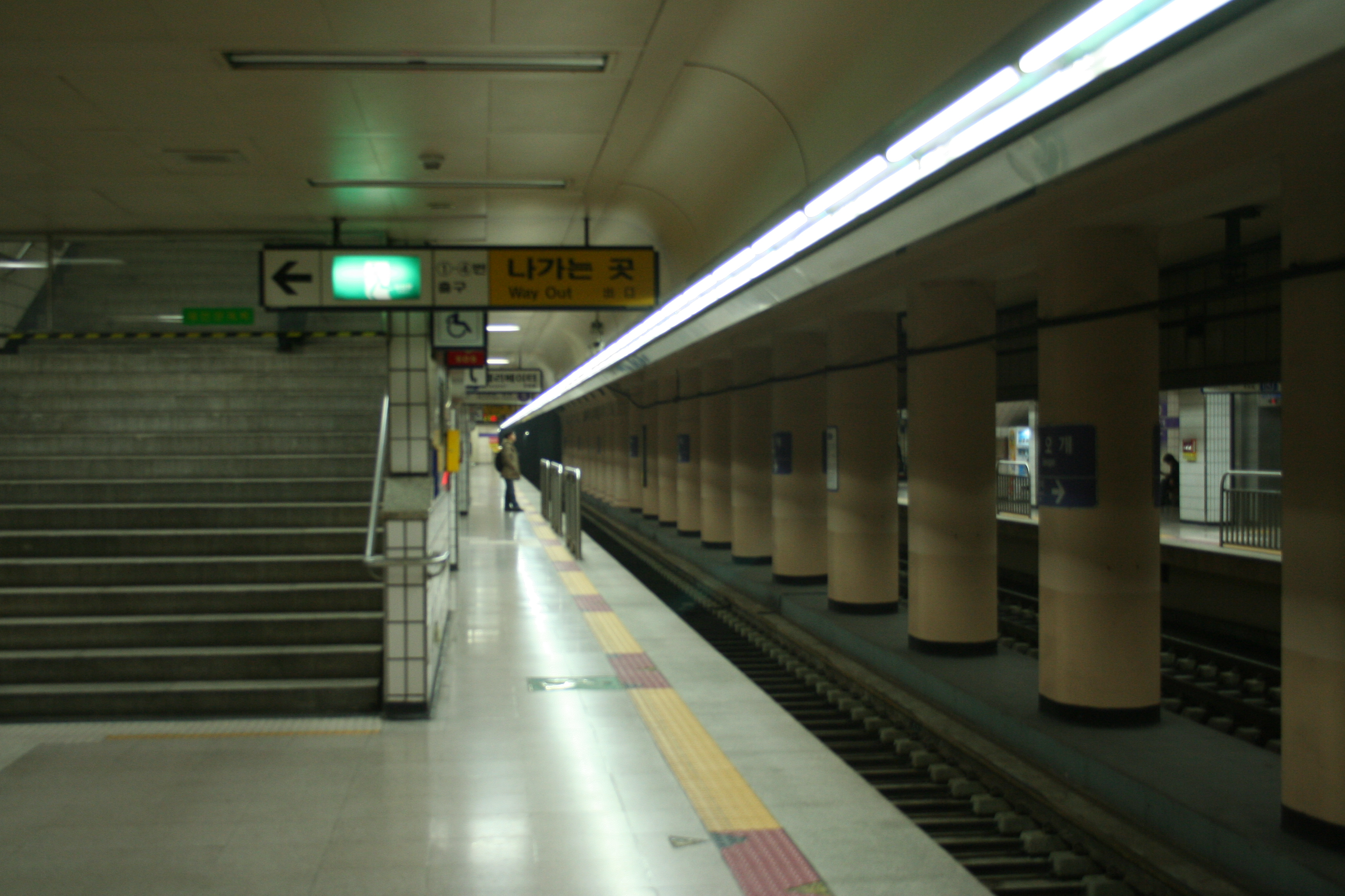 Aeogae Station platform (Seoul Subway line 5)